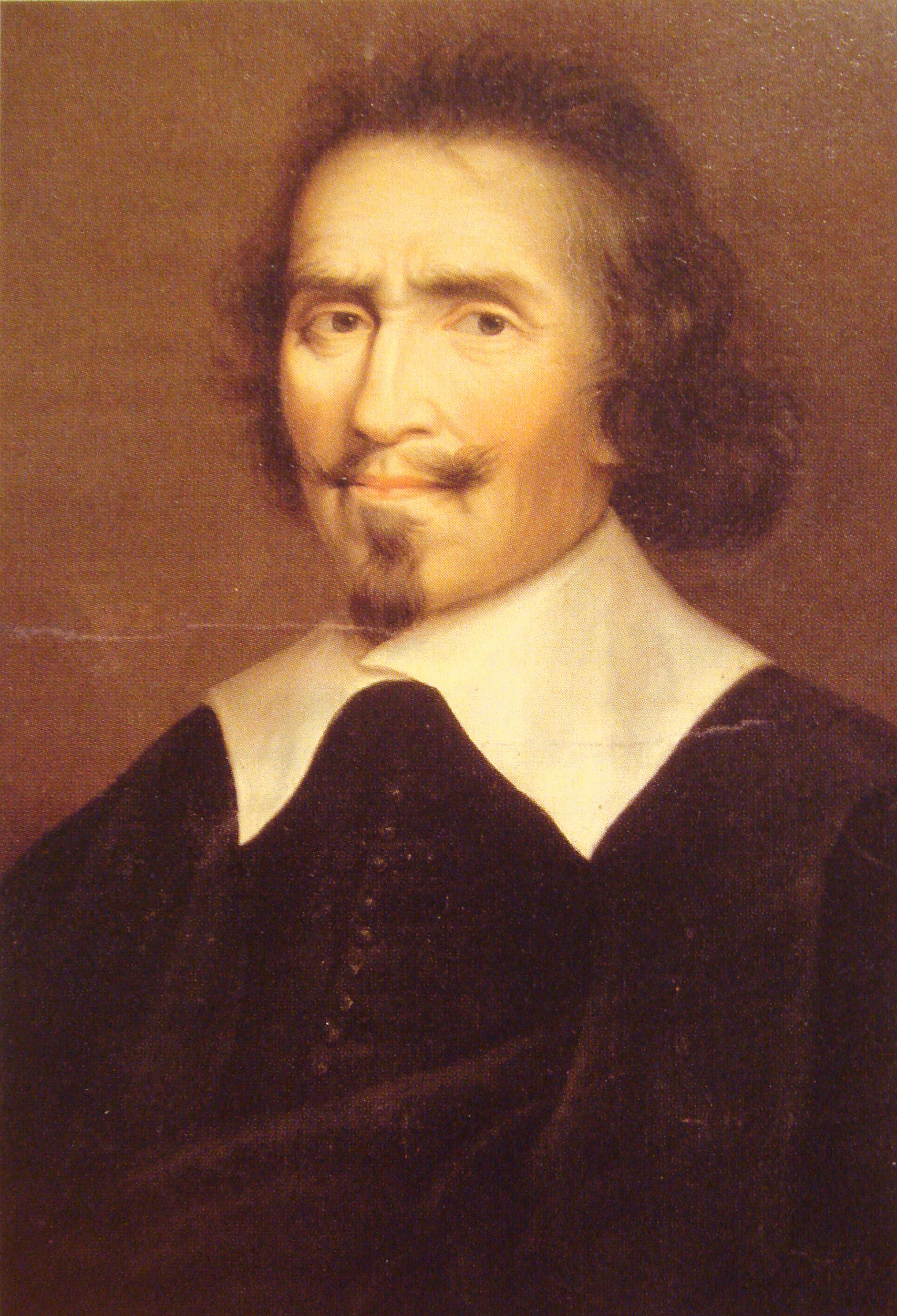 Clement II Metezeau_1581_1652